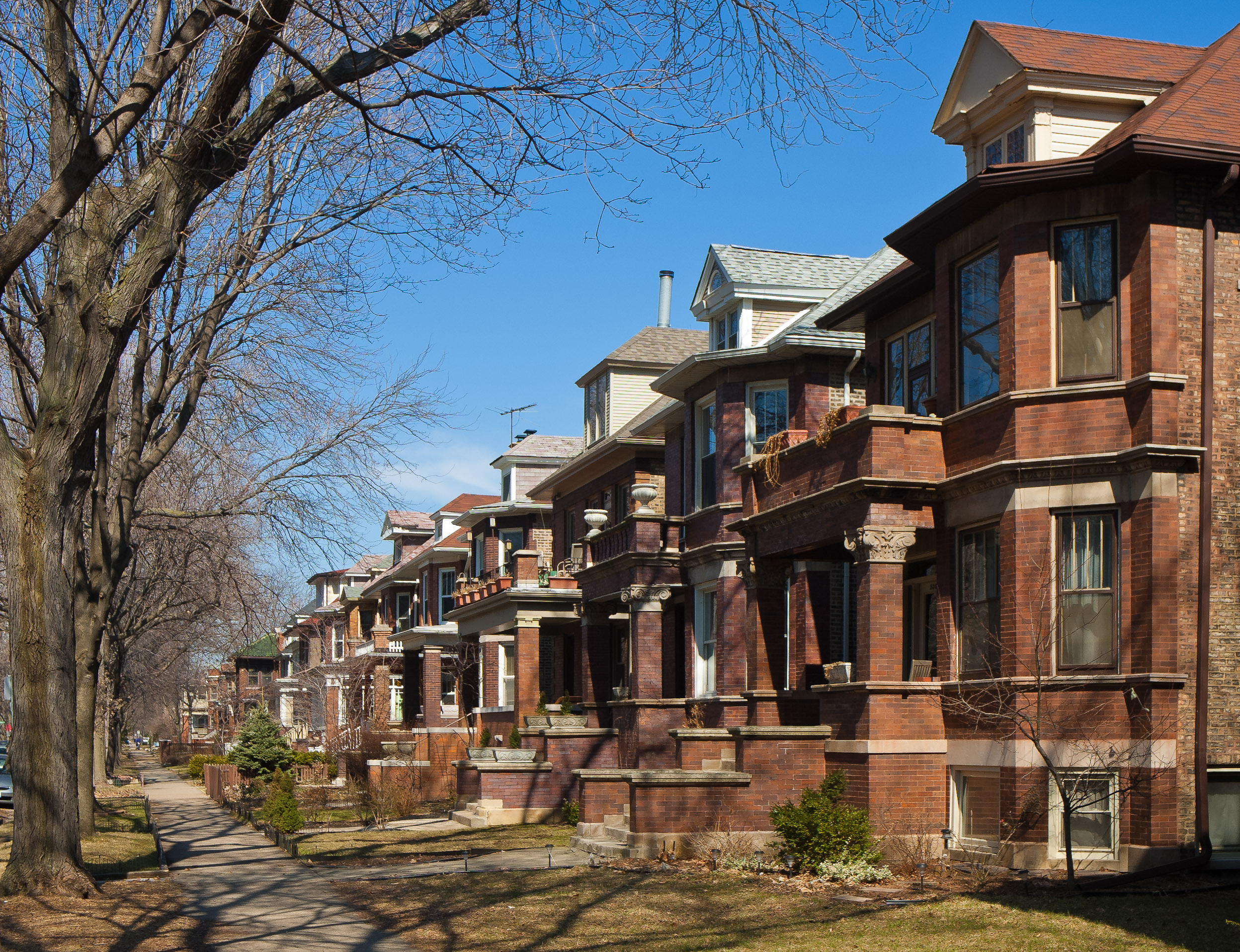 A row of houses in the Lakewood Balmoral Historic District in the Edgewater neighbourhood of Chicago, Illinois.